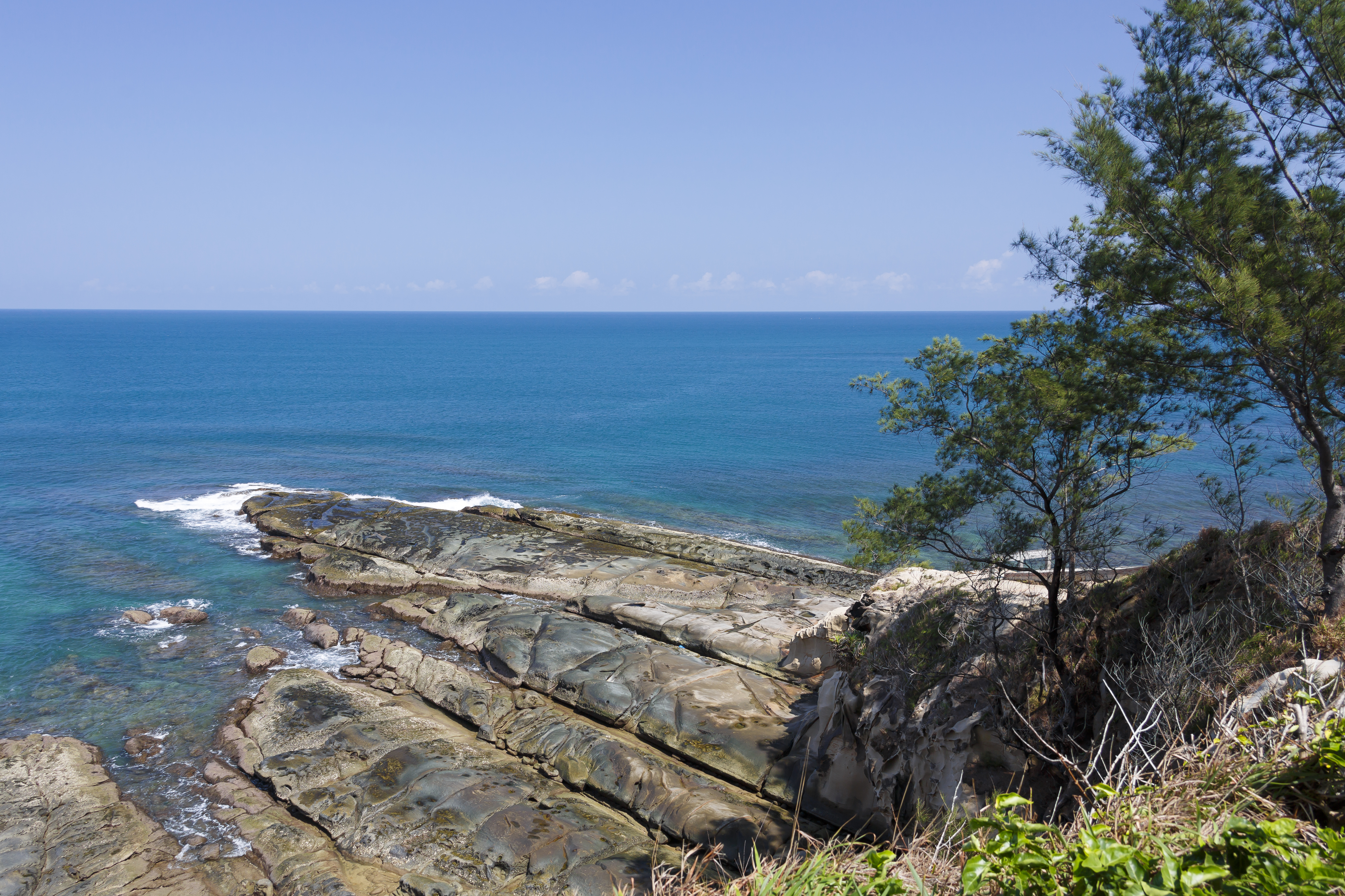 Kudat, Sabah: Tanjung Simpang Mengayau (Tip of Borneo)